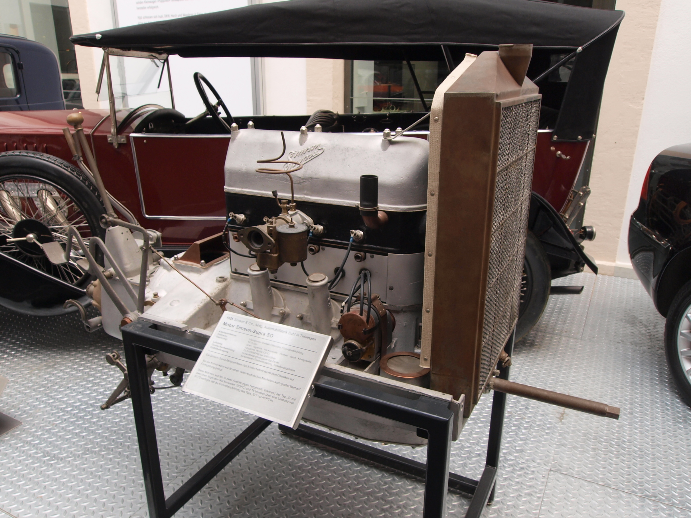 Photo taken without a tripod (was not permitted!) 1925 Simson & Co Motor, engine Simson-Supra SO